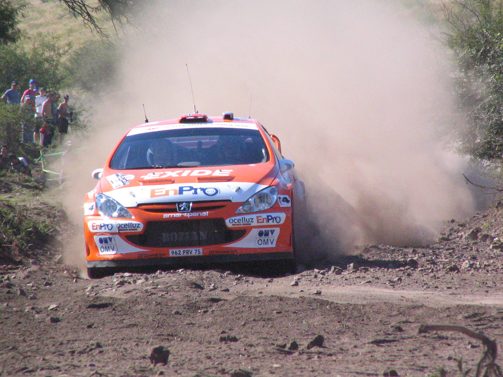 Henning during shakedown on thursday morning